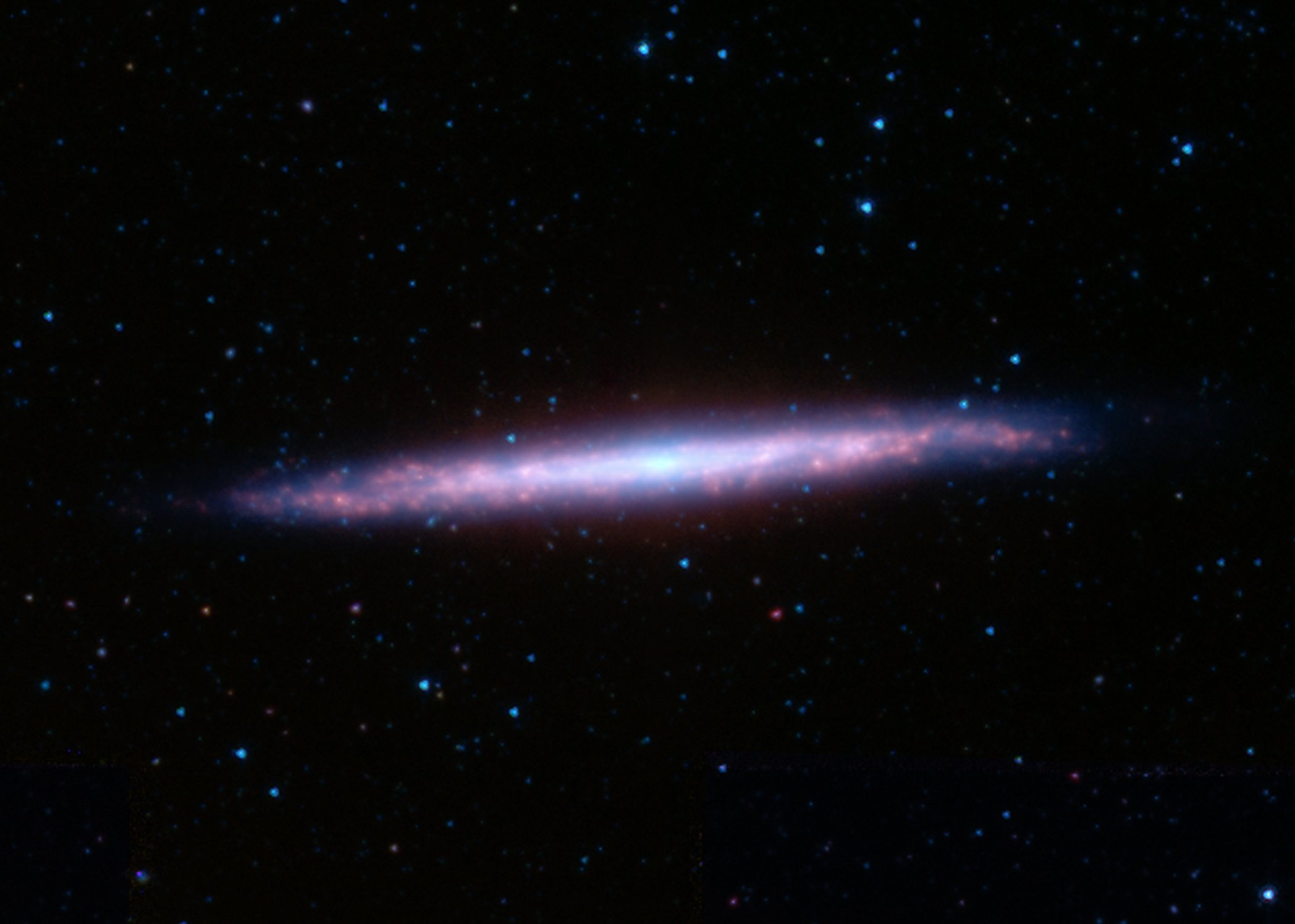 The spiral galaxy NGC 5907, sometimes known as the "Splinter Galaxy" because of its unusual appearance, is located in the constellation Draco. It is fairly bright, and appears elongated because it has an edge-on alignment when viewed from Earth. It also has a strong set of dust lanes, visible in this image from NASA's Spitzer Space Telescope as red features. The central lane is so pronounced at visible light wavelengths, where it blocks our view of the starlight, that the galaxy was once mistaken for two objects and given two entries in the original New General Catalogue. The catalogue, published by J.L.E. Dreyer in 1888, was an attempt to collect a complete list of all nebulae and star clusters known at the time. NGC 5907's special orientation and close proximity to Earth have made it a popular target for observation by both professional and amateur astronomers. Over the last decade, ever-improving infrared instrumentation have allowed scientists to detect light from the galaxy that was until now hidden by dust. Recent observations using Spitzer's InfraRed Array Camera at infrared wavelengths from 3-10 microns resulted in the discovery of a significant and potentially massive thick stellar disk. This is the first time that a thick disk has been detected and characterized in the infrared. This image is composed of images obtained at four wavelengths: 3.6 microns (blue), 4.5 microns (green), 5.8 microns (orange) and 8 microns (red). The contribution from starlight has been subtracted from the 5.8 and 8 micron images to enhance the visibility of the dust features.